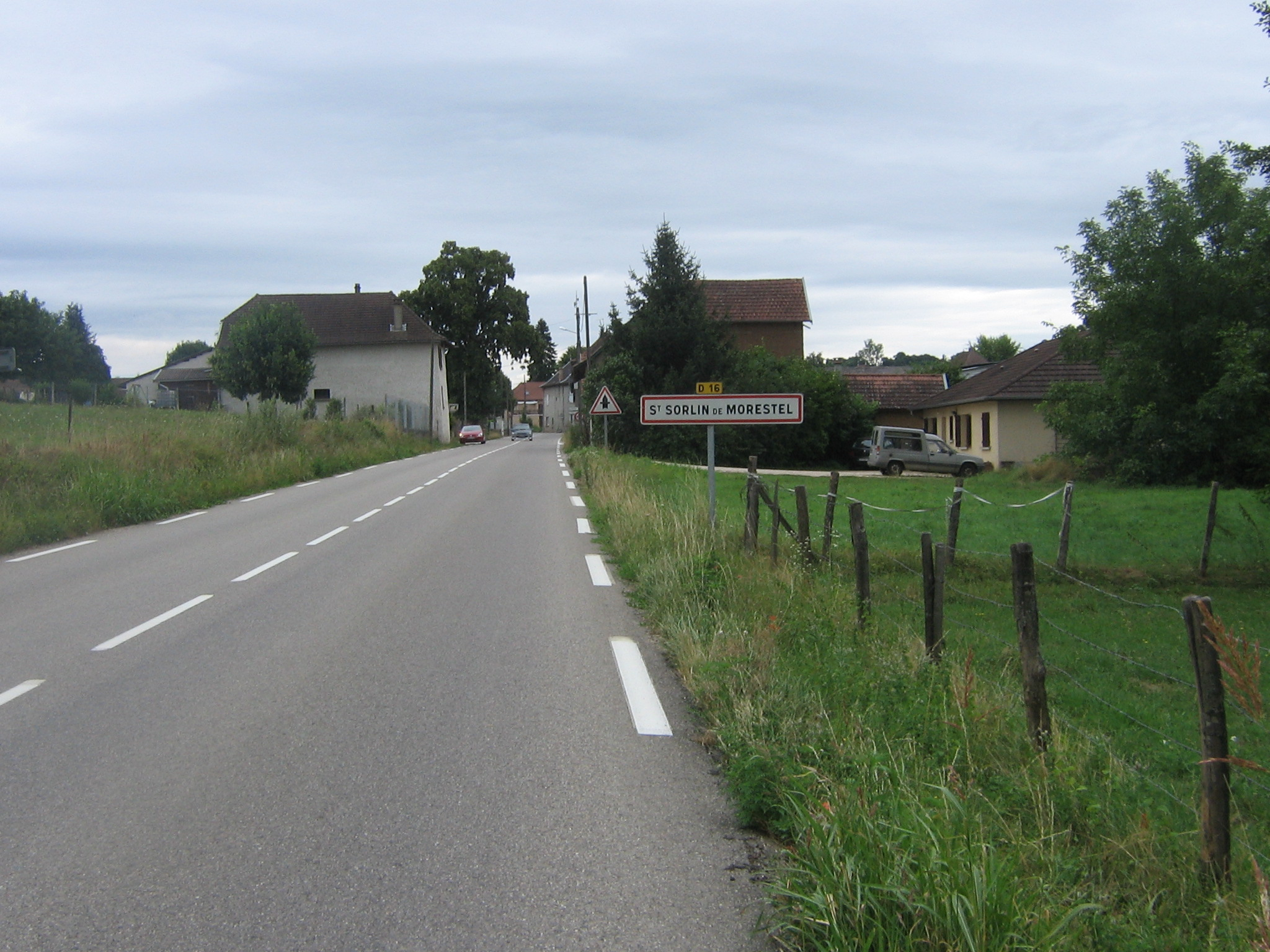 Image of Saint-Sorlin-de-Morestel.